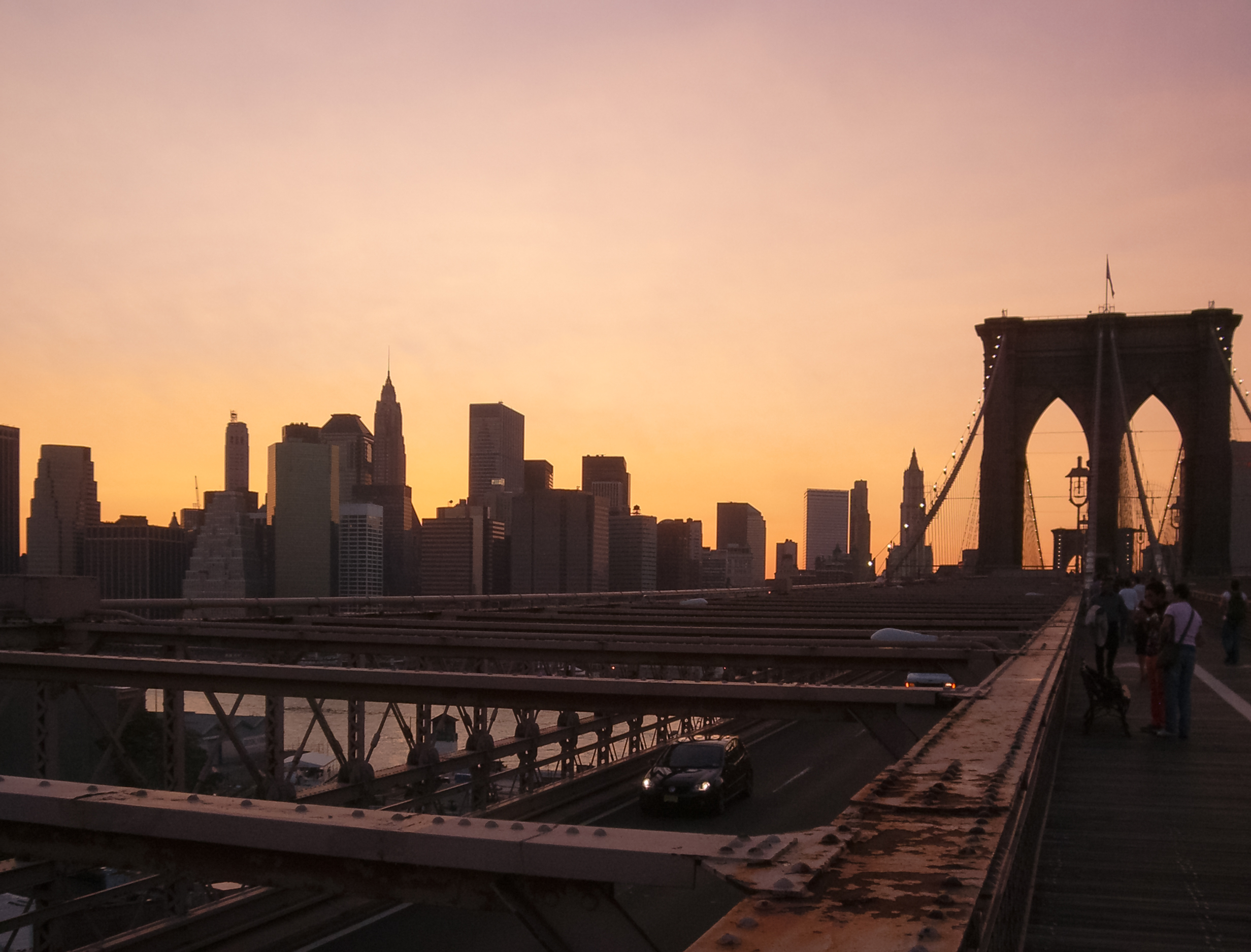 Brooklyn Bridge, New York, USA